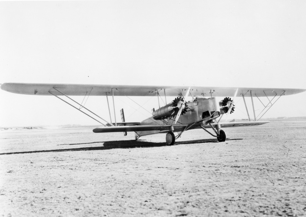 Photo of Sikorsky-Consolidated S-37-2 aircraft